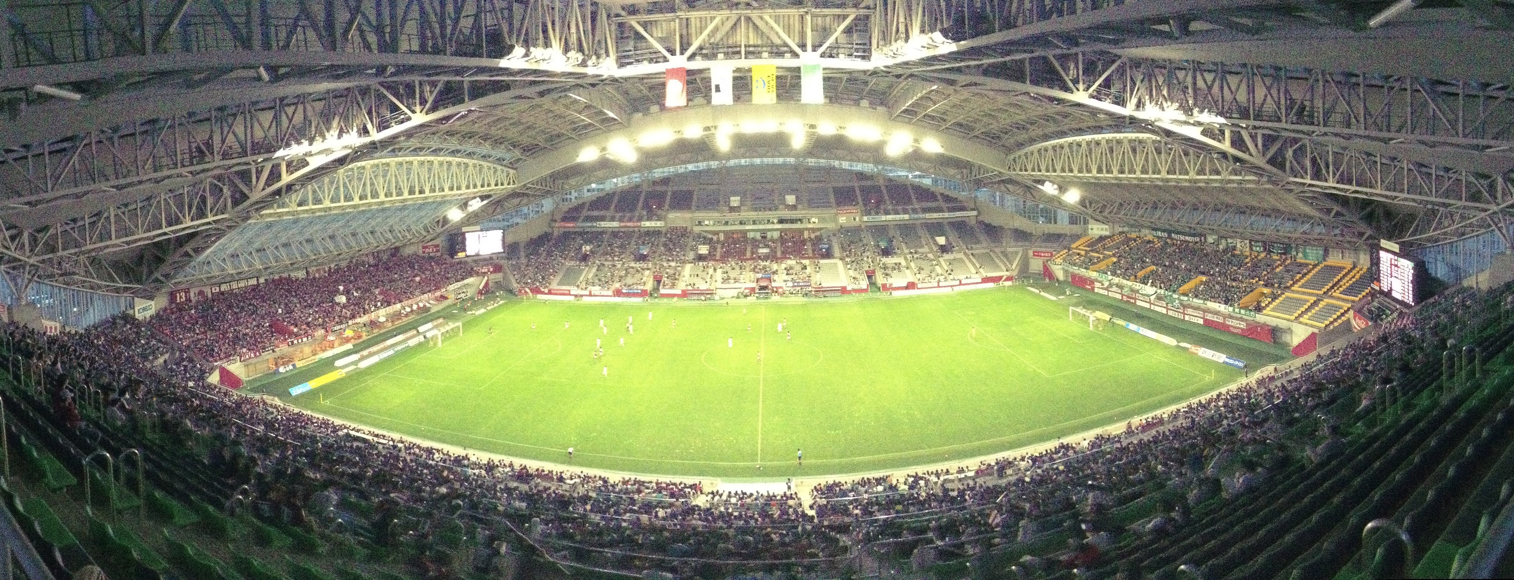 The panoramic photograph of Misaki Park Stadium. J. League Division 2 , Vissel Kobe vs Matsumoto Yamaga FC , 20 October, 2013.